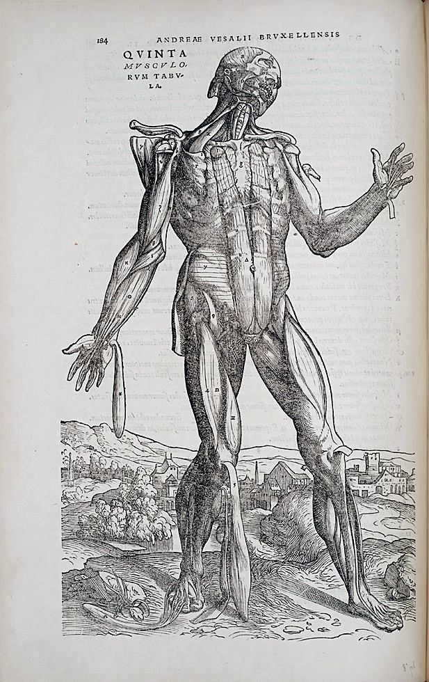 Plate from "De humani corporis fabrica" by Andreas Vesalius